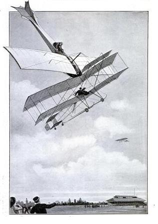 Artists impression of the first collision between two aeroplanes in Milan 1910.